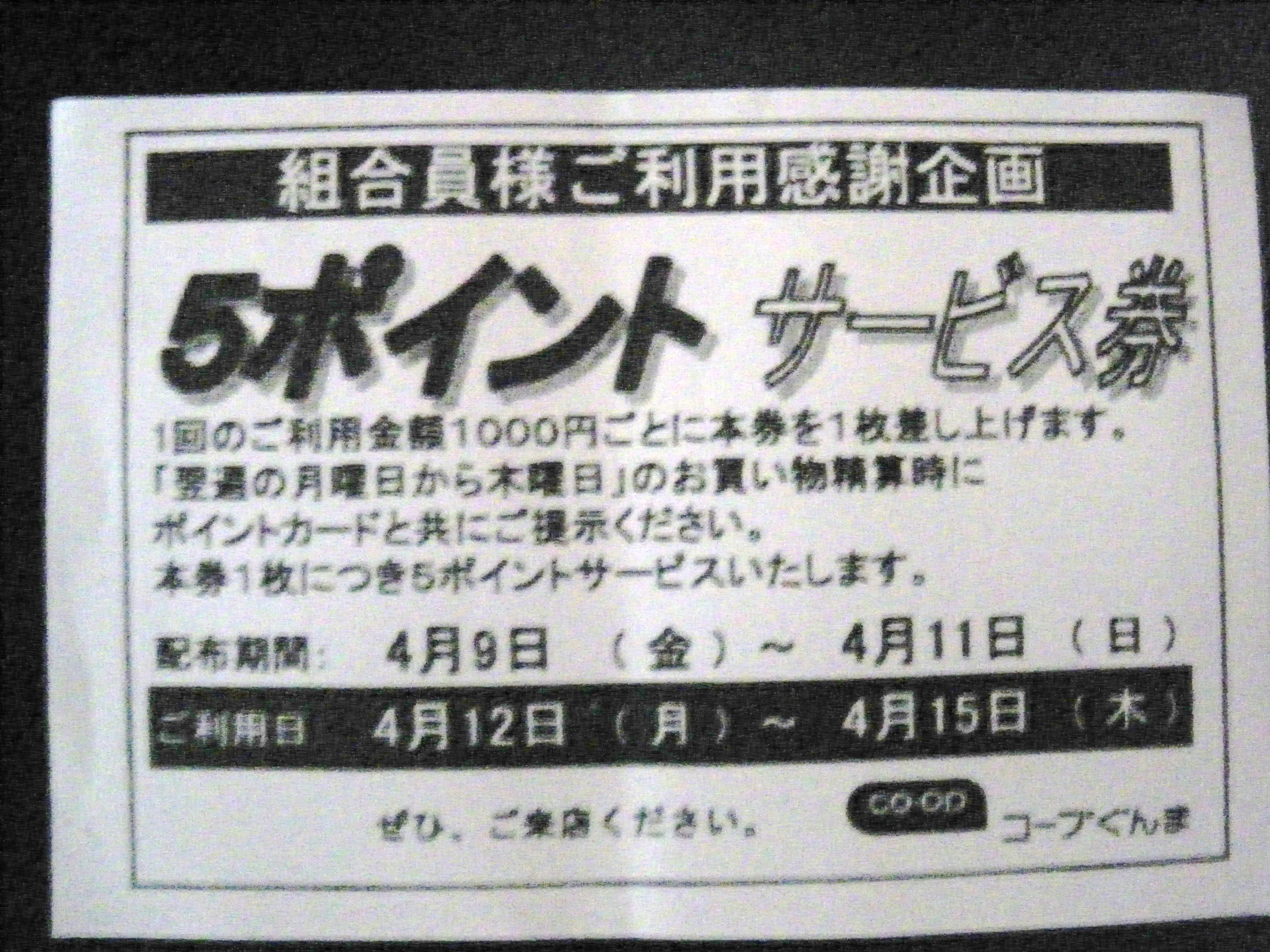 Service coupon of Coop-Gunma